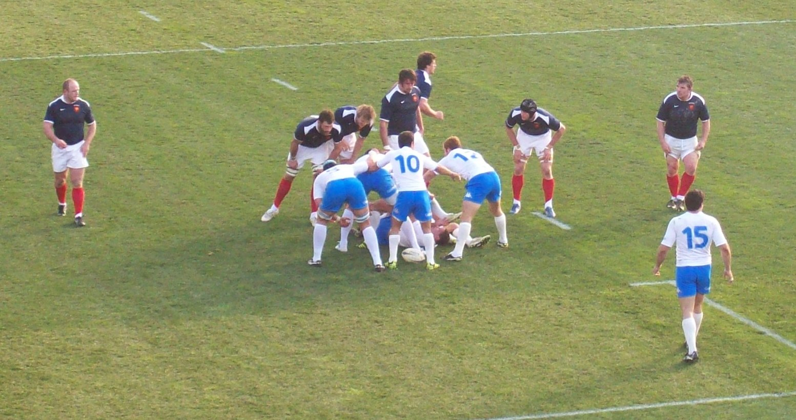 A cropped version showing the ruck in more detail